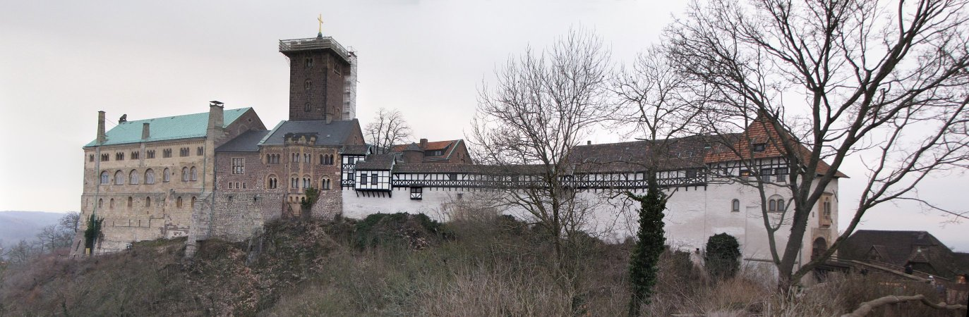 Wartburg